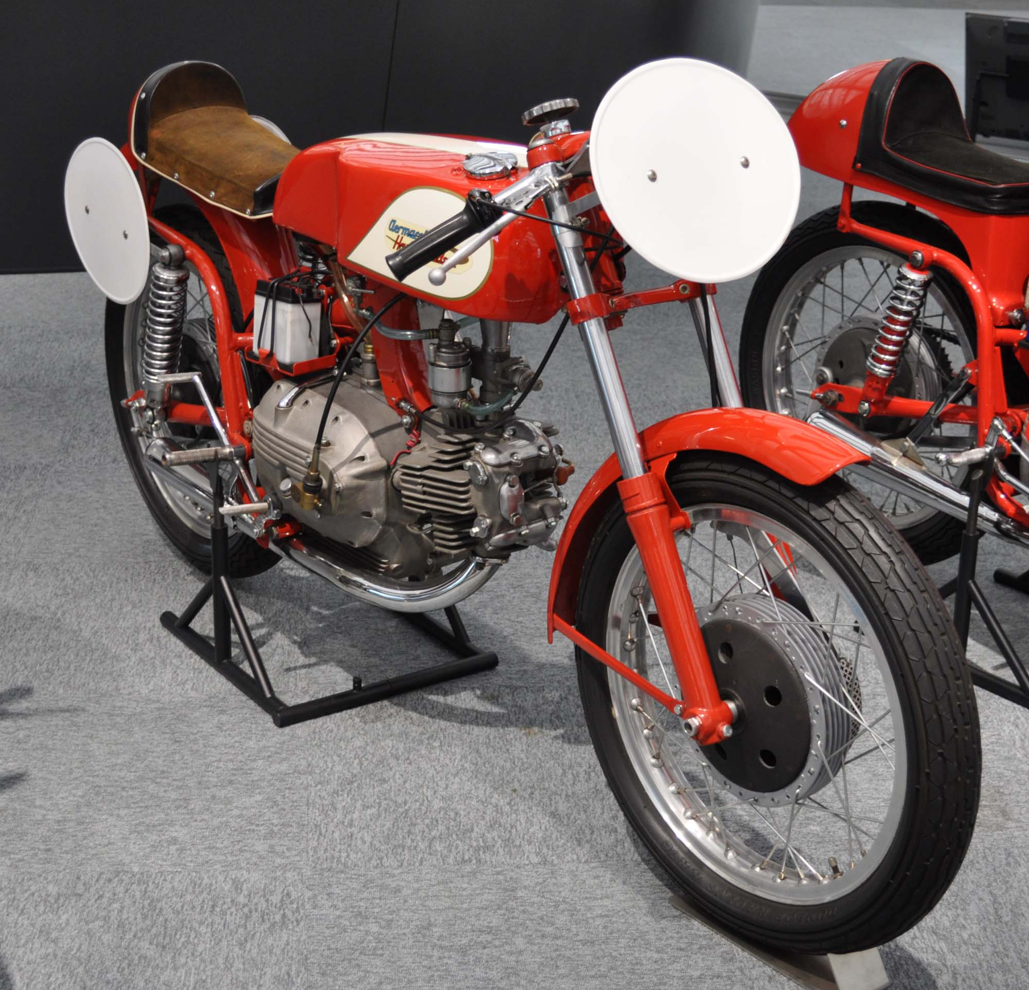 Aermacchi Harley-Davidson Ala D'oro S (1963)